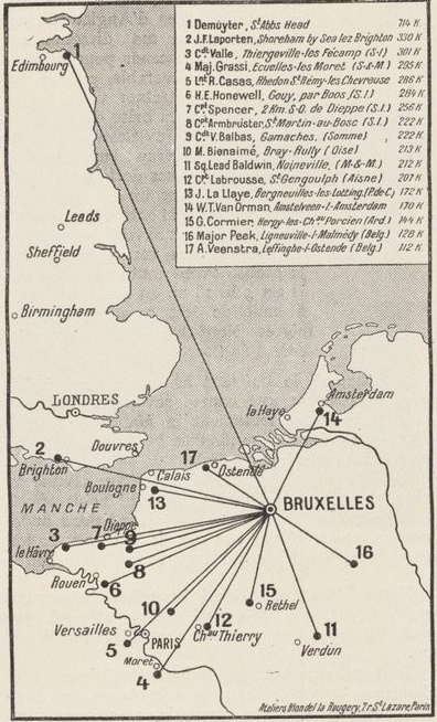 Gordon Bennett Cup in ballooning 1924. Balloon flight routes